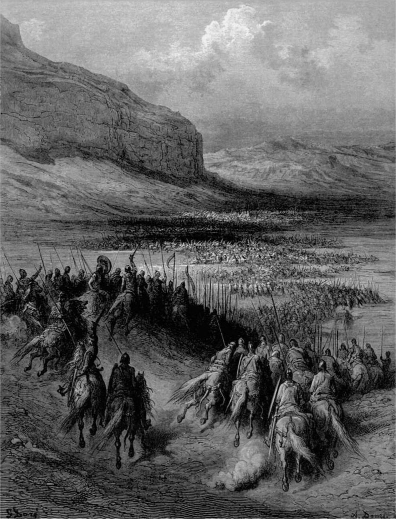 Crusades by Gustave Doré